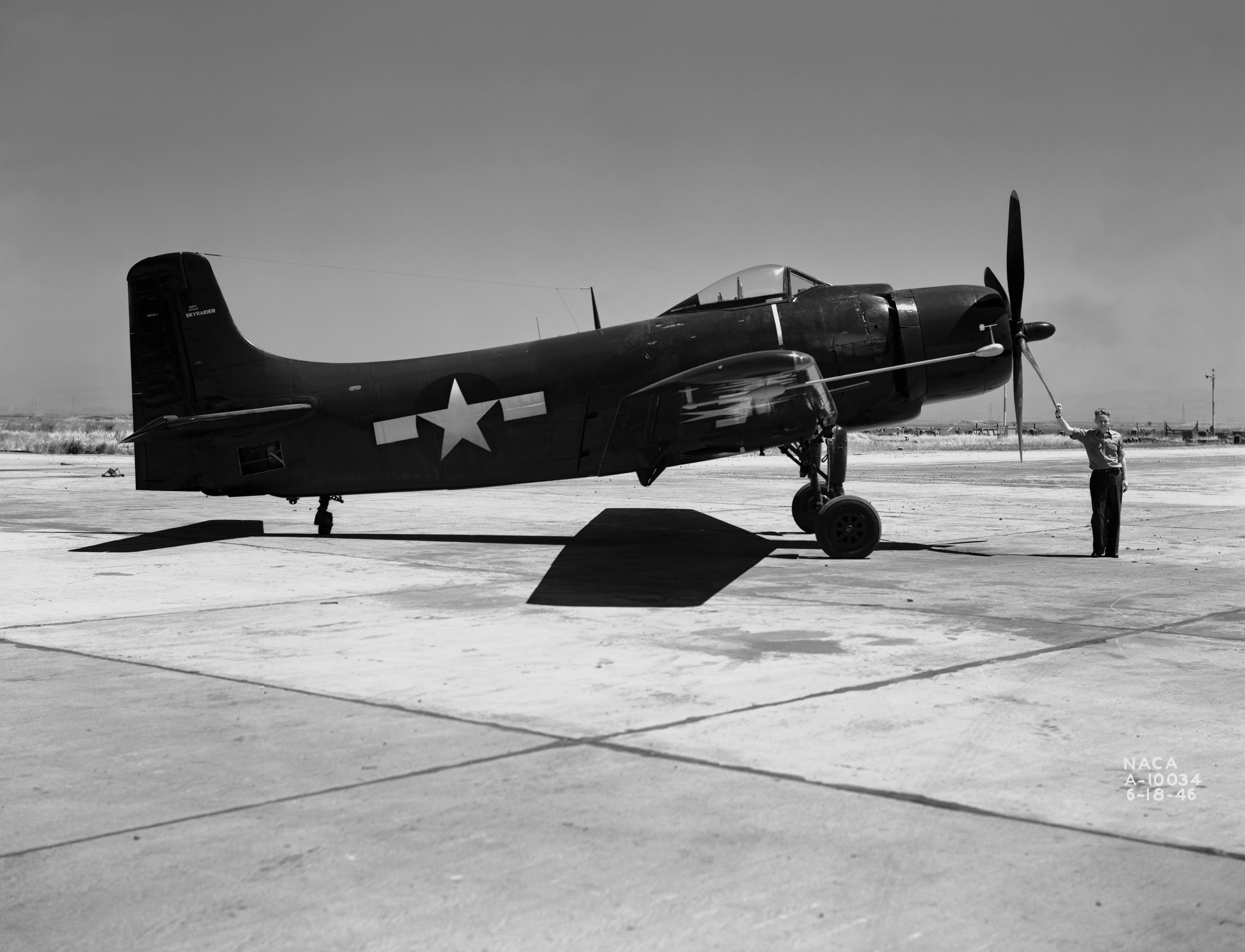 The Douglas XBT2D-1 Skyraider prototype BuNo. 09086 was used the National Advisory Committee for Aeronautics (NACA), Ames Research Center, Moffet Field, California (USA), by from 11 March 1946 to 4 September 1947 to gain data on flying qualities, stability and control, and performance.